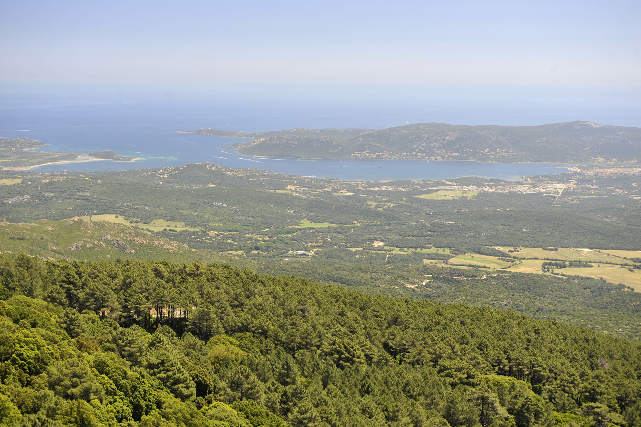 Gulf of Porto Vecchio, Corsica